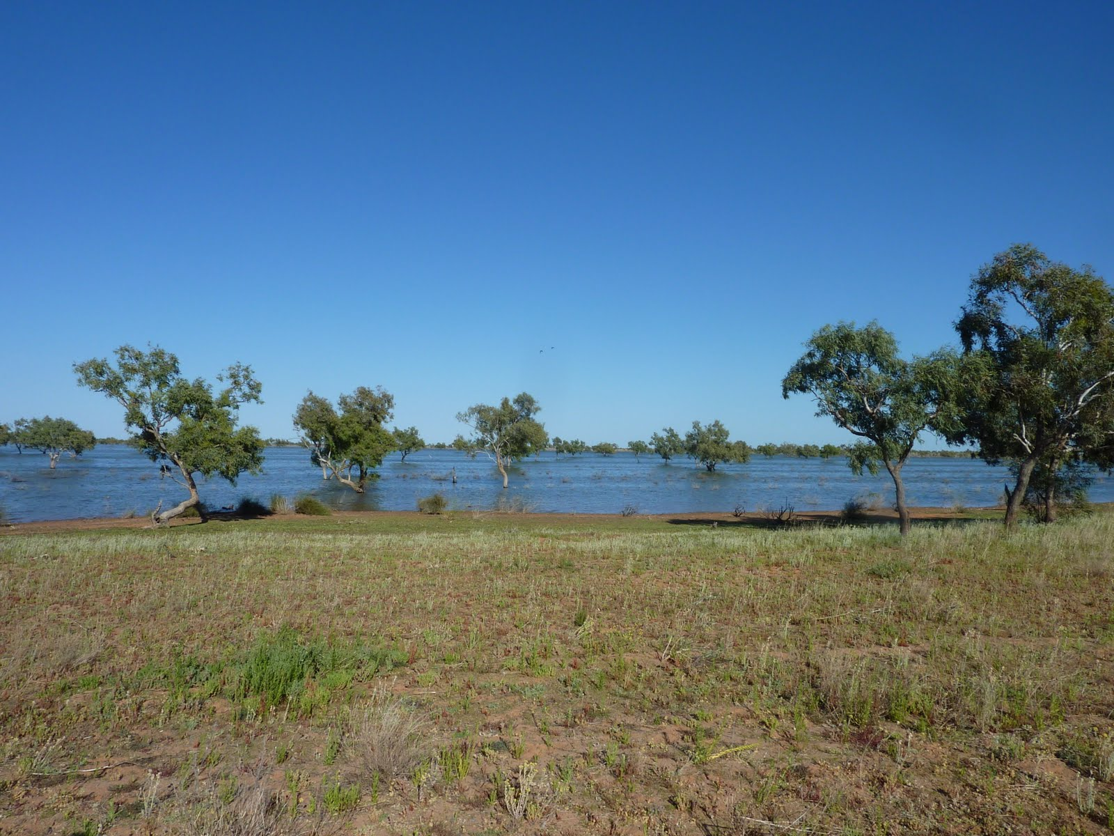 Indinda swamp near Andado, Northern Territory, Australia